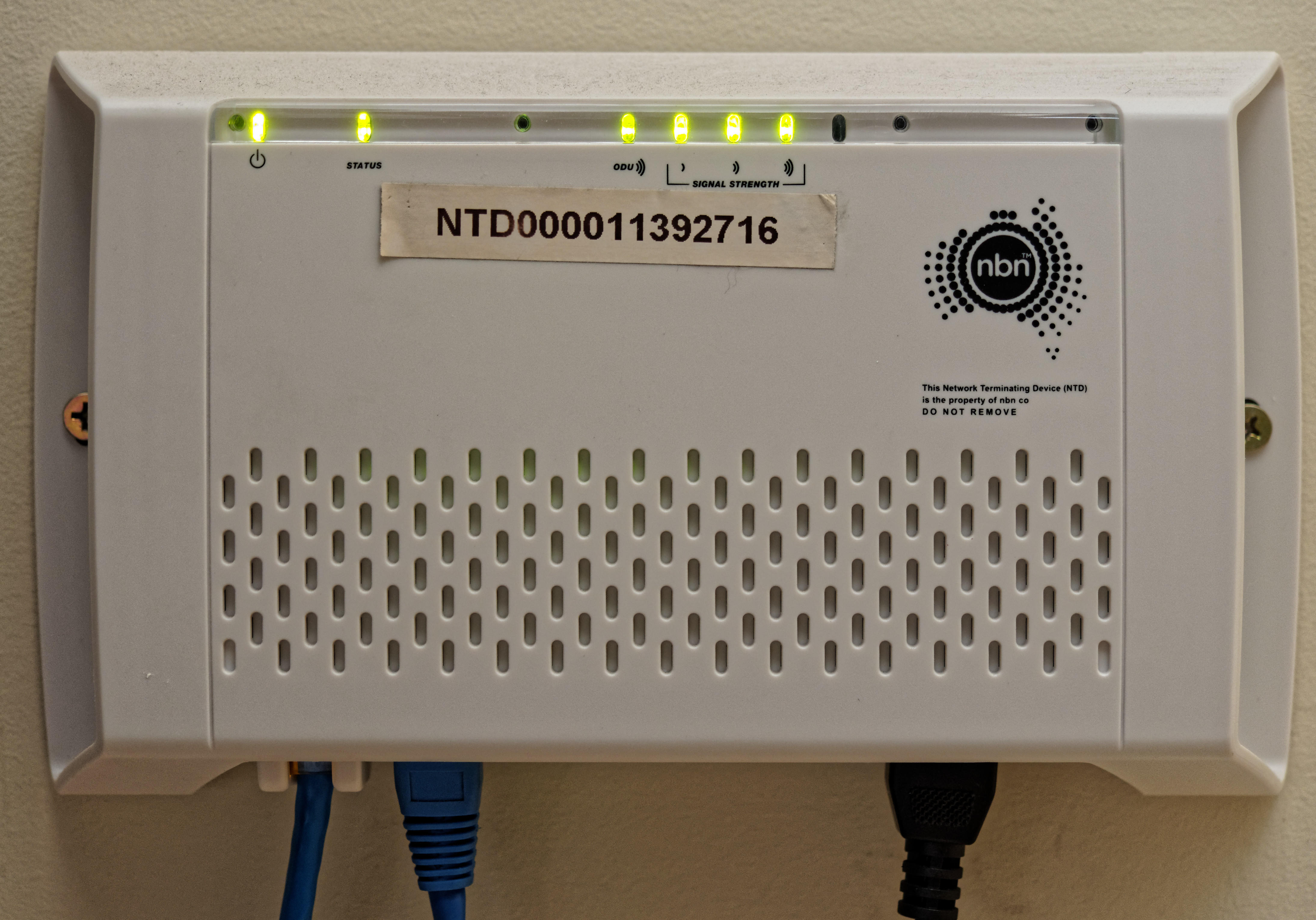 Fixed wireless Network Termination Device from the Australian National Broadband Network